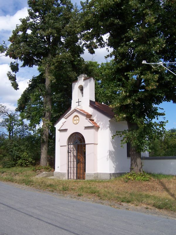 Březová-Oleško, Oleško, chapel